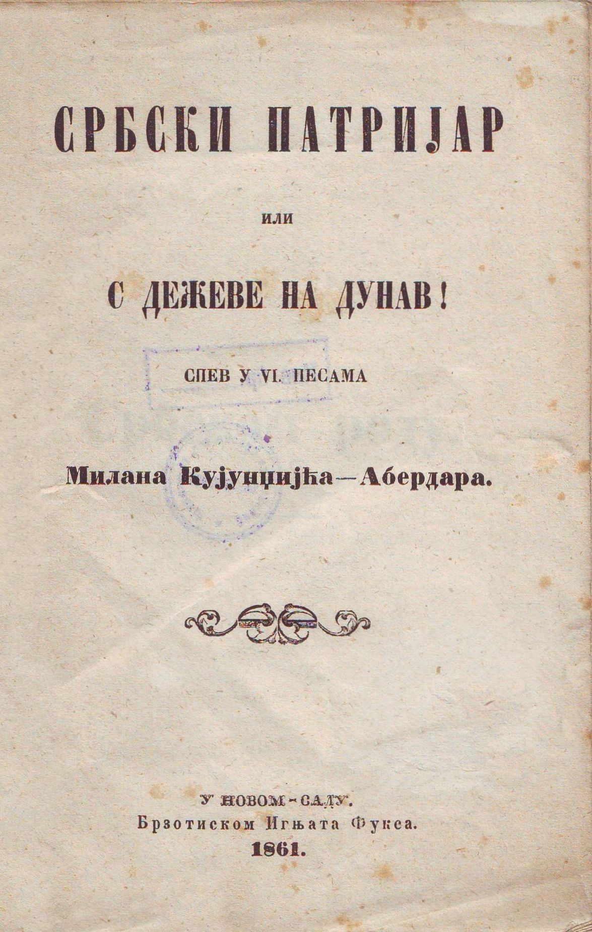 Cover of poem in six stanzas Srbski patrijar ili s deževe na Dunav! (1861) by Milan Kujundžić-Aberdar. Srpski (latinica): Naslovna strana speva u šest pesama Srbski patrijar ili s deževe na Dunav! (1861) Milana Kujundžića-Aberdara.